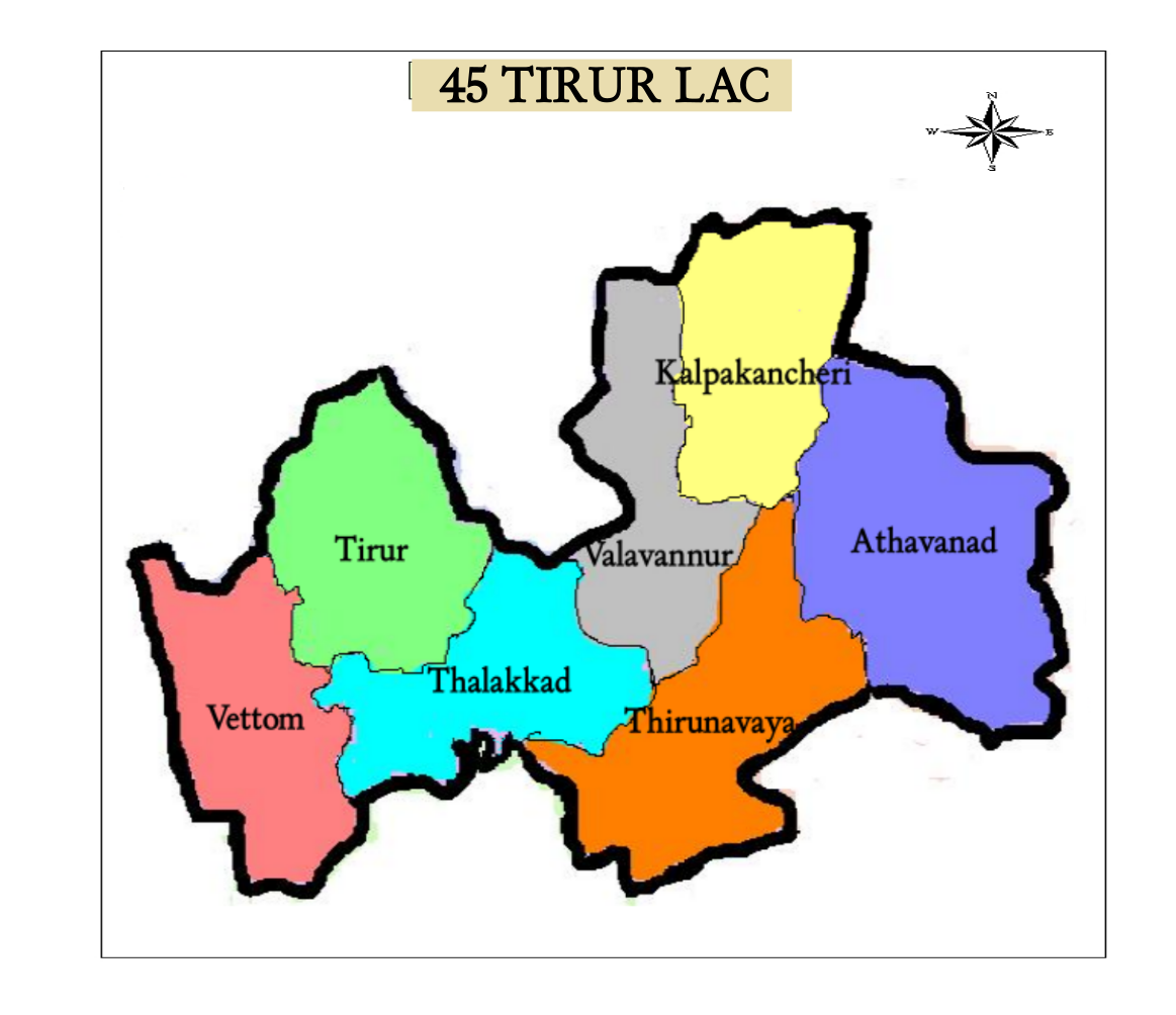 This is the map of Tirur Niyamasabha constituency